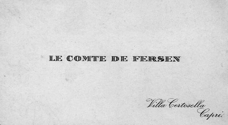 Jacques d'Adelswärd-Fersen's visiting card from when he was residing at Villa Certosella on Capri